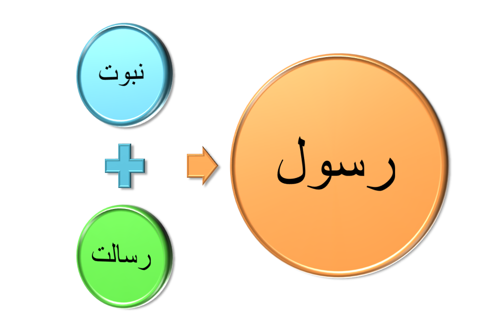 Nabwat+Risalat=Rasul پښتو: نبوت و رسالت یو رسول سرہ وی